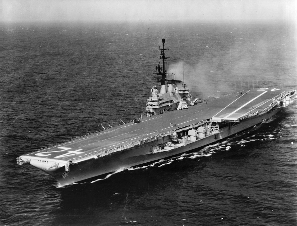 The U.S. Navy aircraft carrier USS Franklin D. Roosevelt (CVA-42) probably running trials after her SCB-110 modernization, circa May 1956.